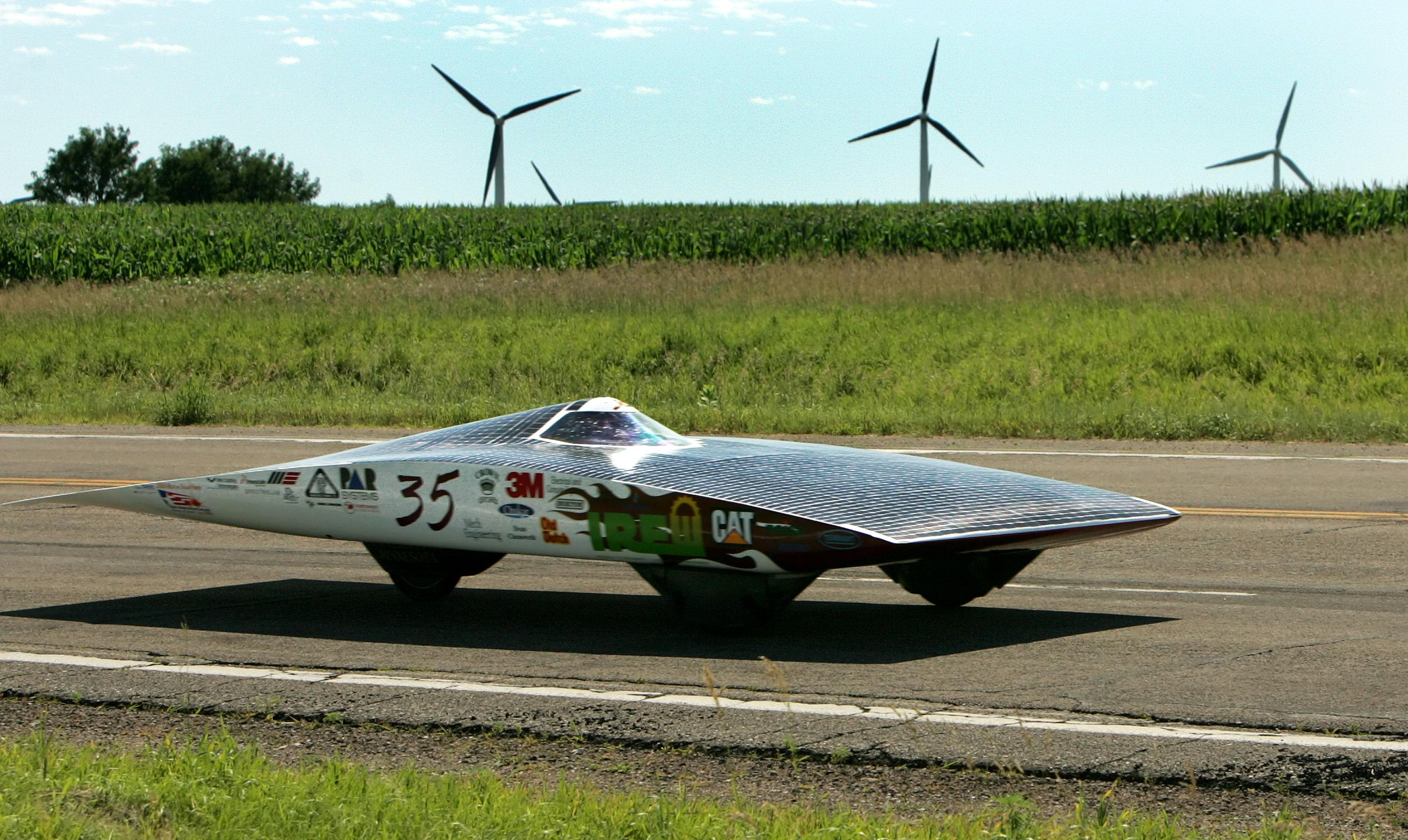 Image from Stefano Paltera, the NASC's official photographer Found on-line at Borealis III leads the way during the 2005 North American Solar Challenge passing by Lake Benton, Minnesota.